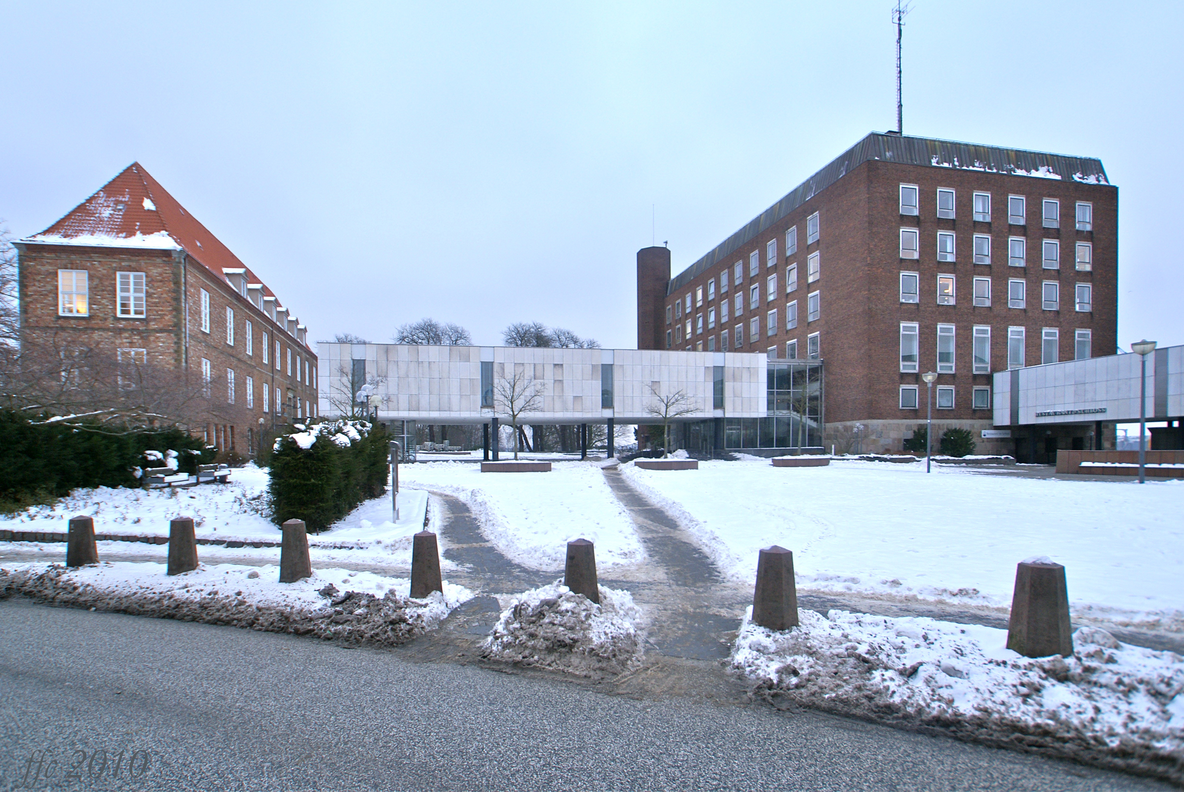 Kiel, Germany: Kiel Castle: old and modern